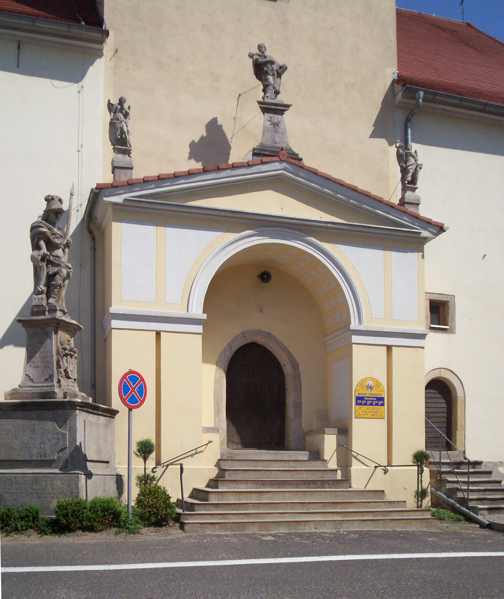 Saint Hedwig Church in Gryfów Śląski